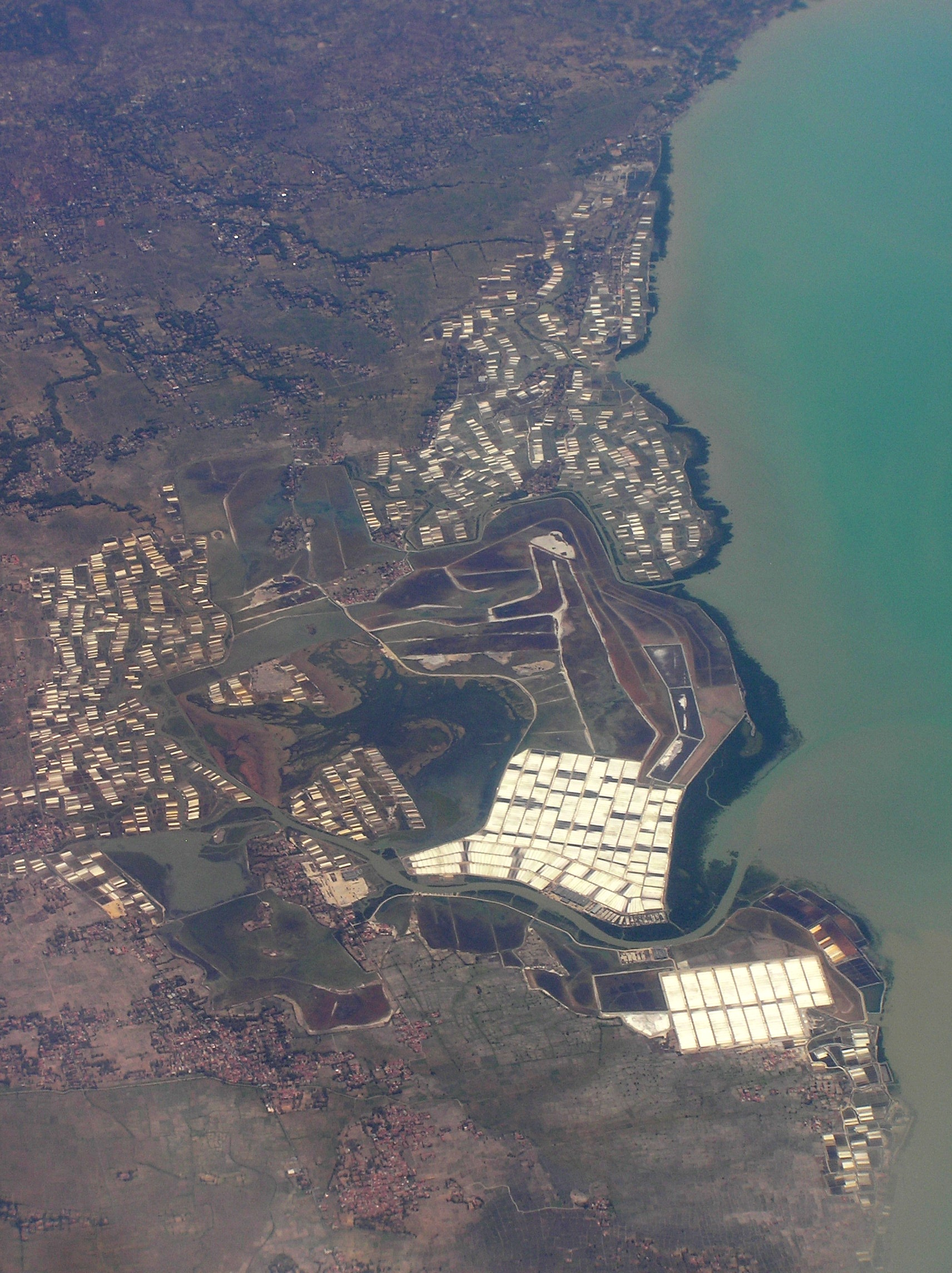 areal photo of PN Garam, Pamekasan Regency, Madura Indonesia